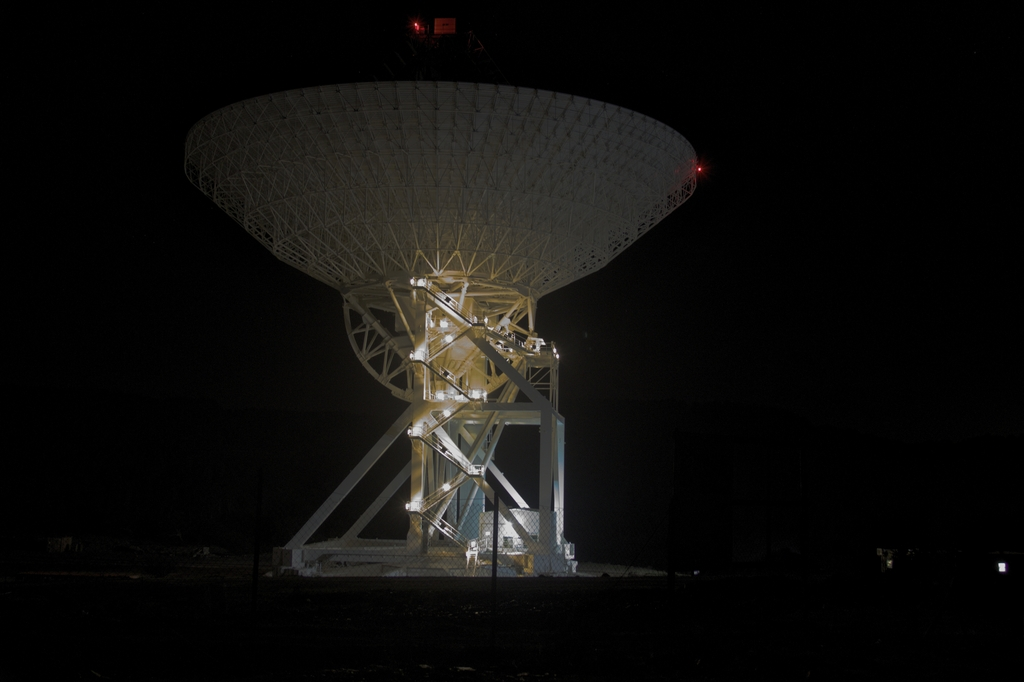 The Sardinia Radio Telescope at night